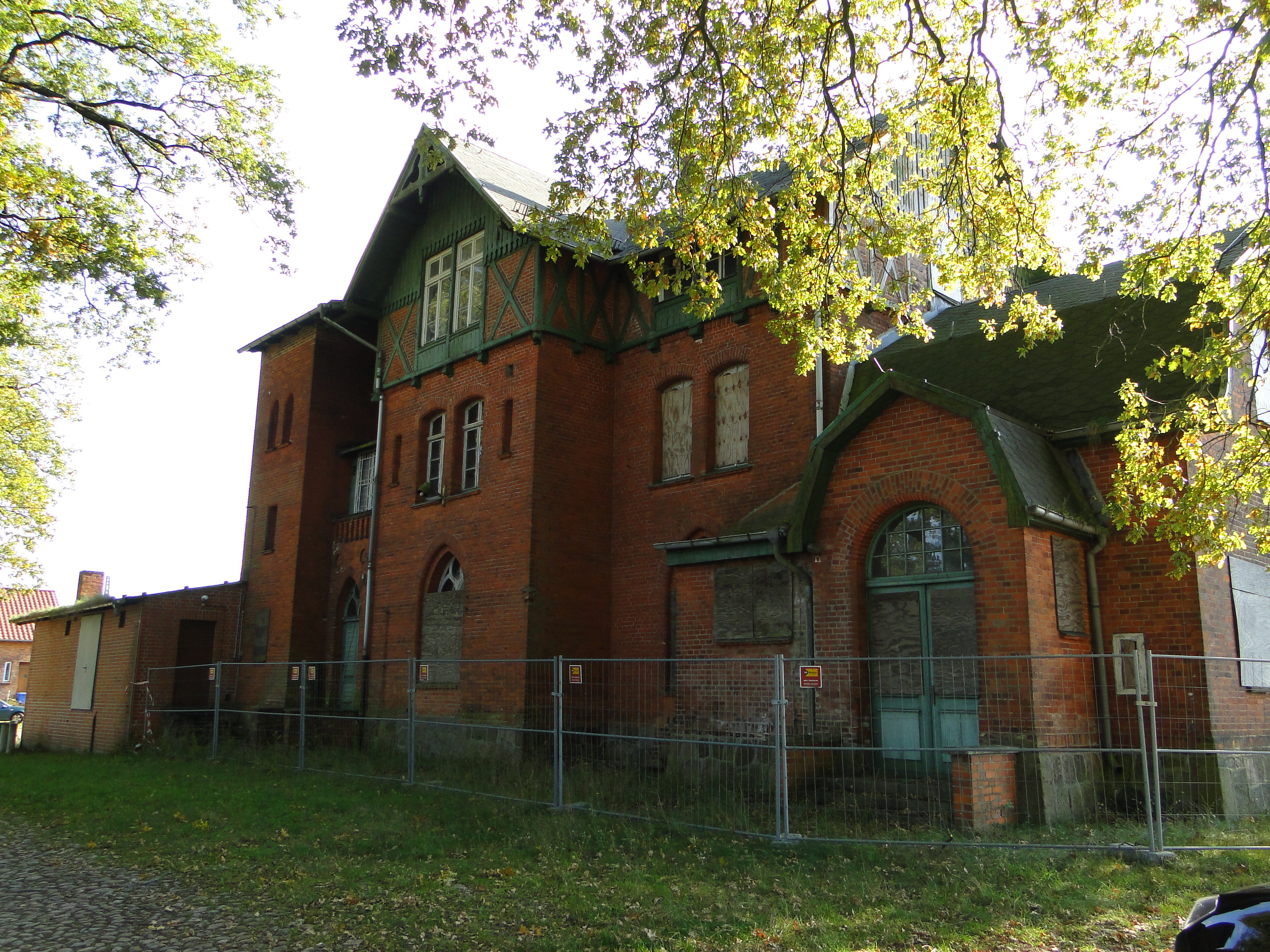 Train station building in Jasnitz, district Ludwigslust-Parchim, Mecklenburg-Vorpommern, Germany